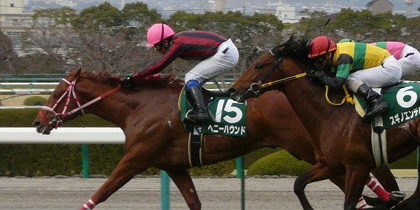 Henny-hound20110319